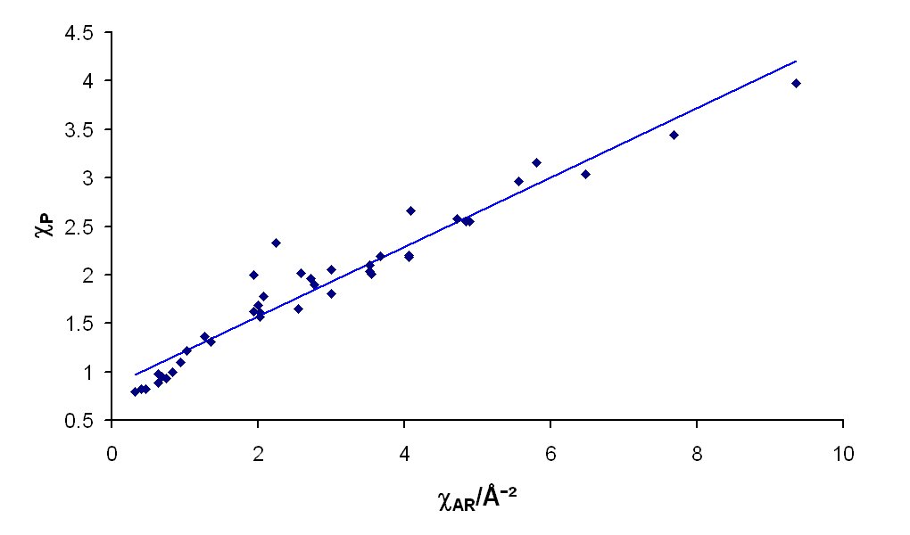 The correlation between Pauling electronegativity (y-axis, revised values) and Allred-Rochow electronegativity (x-axis, in reciprocal square Angstroms)